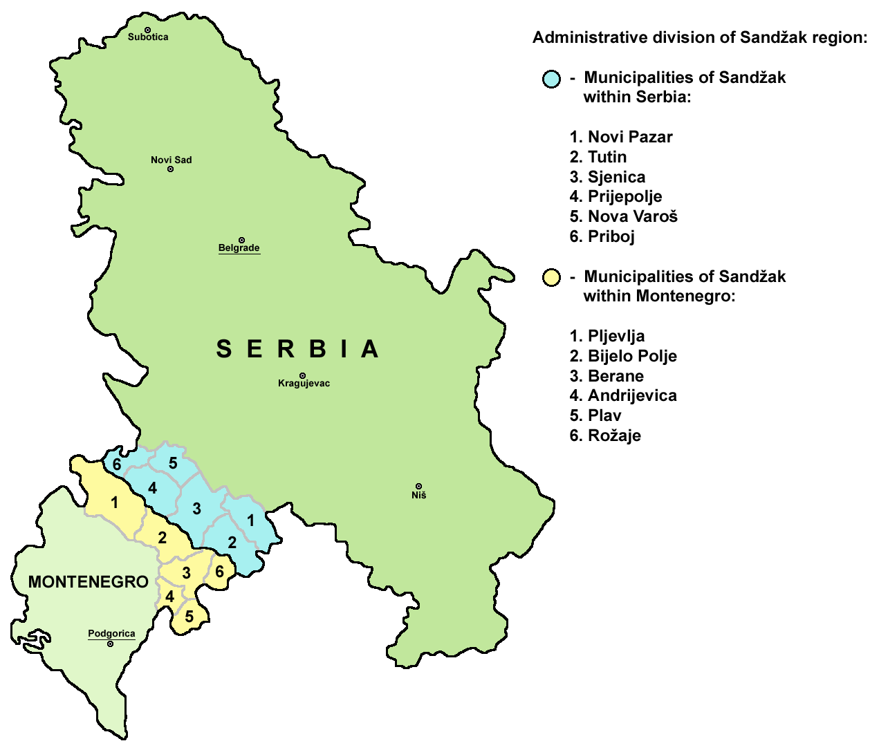 Location map of the Sandžak within Serbia and Montenegro (version without Kosovo).